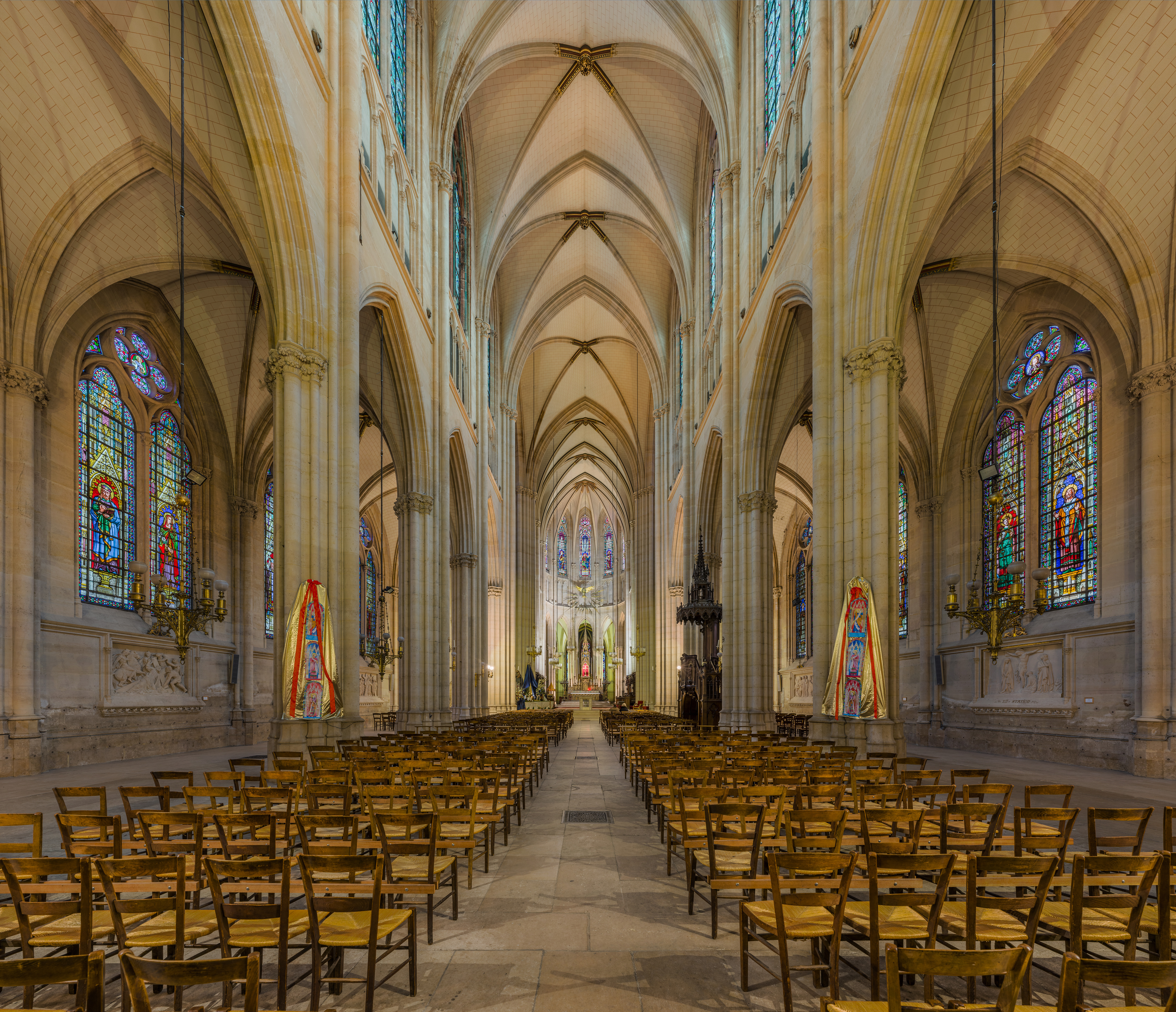 The interior of the Basilica of Saint Clotilde in Paris, France.